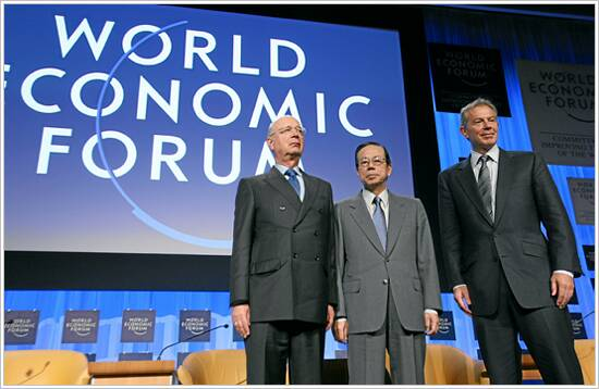 World Economic Forum Annual Meeting Davos 2008